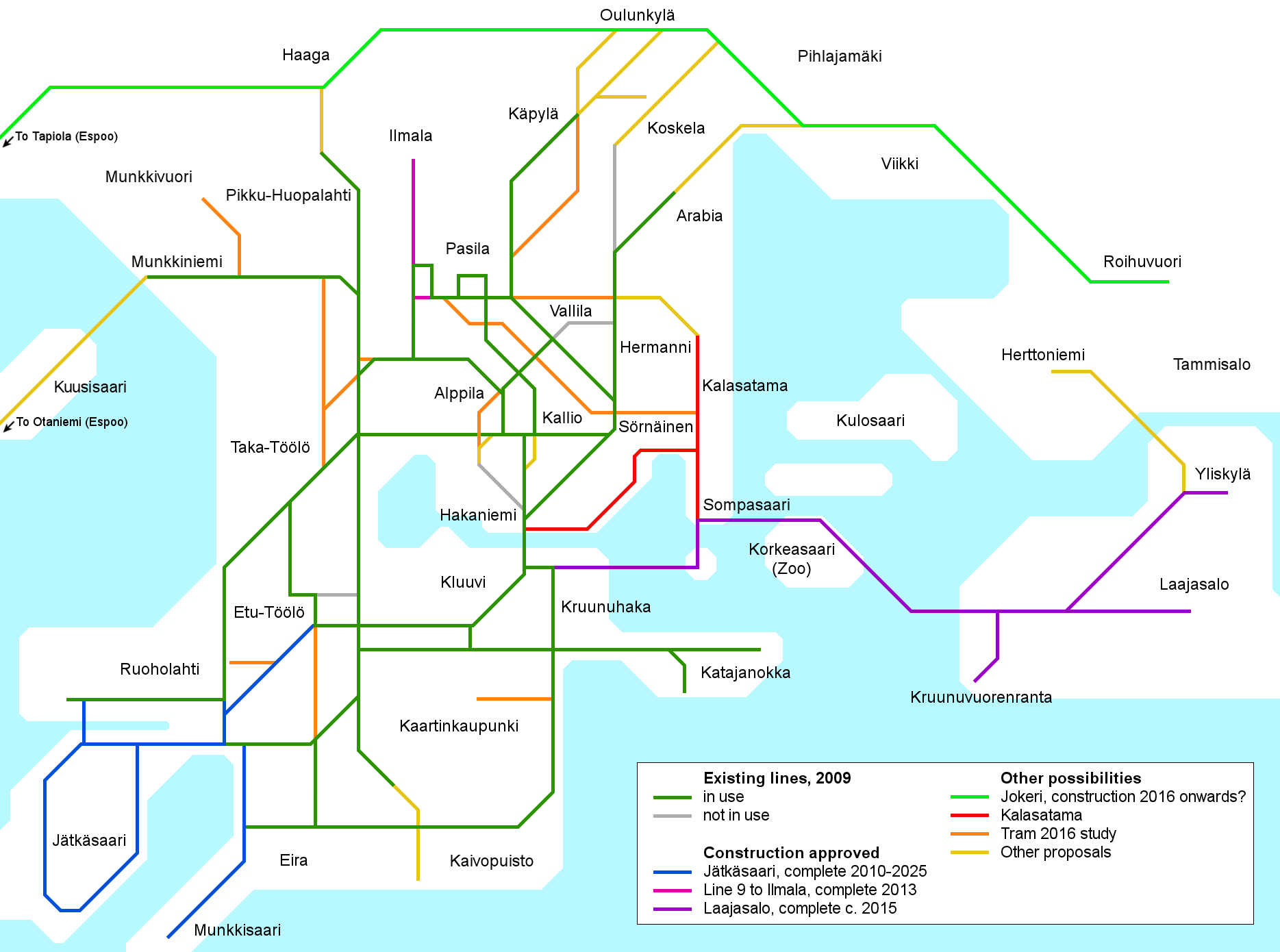 A map of expansions to the Helsinki tram network planned to be built 2010 onwards. The decision to be built has been made for some new lines (Jätkäsaari, Ilmala, Laajasalo), others are pending approval by the city council (Kalasatama, Jokeri) while the rest are proposed expansions that might not be built. Place names in Finnish, map key in English. Versions in other languages can be made on request.